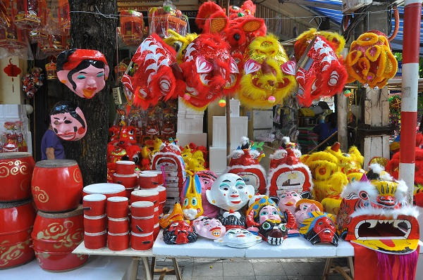 Mid-Autumn happy